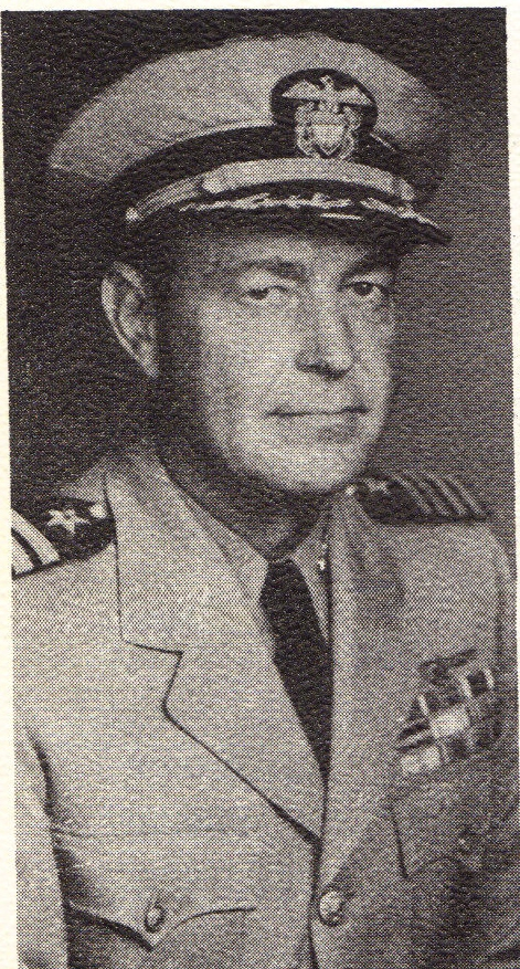 File photo of VADM (pictured as CAPT) Frederick M. Trapnell